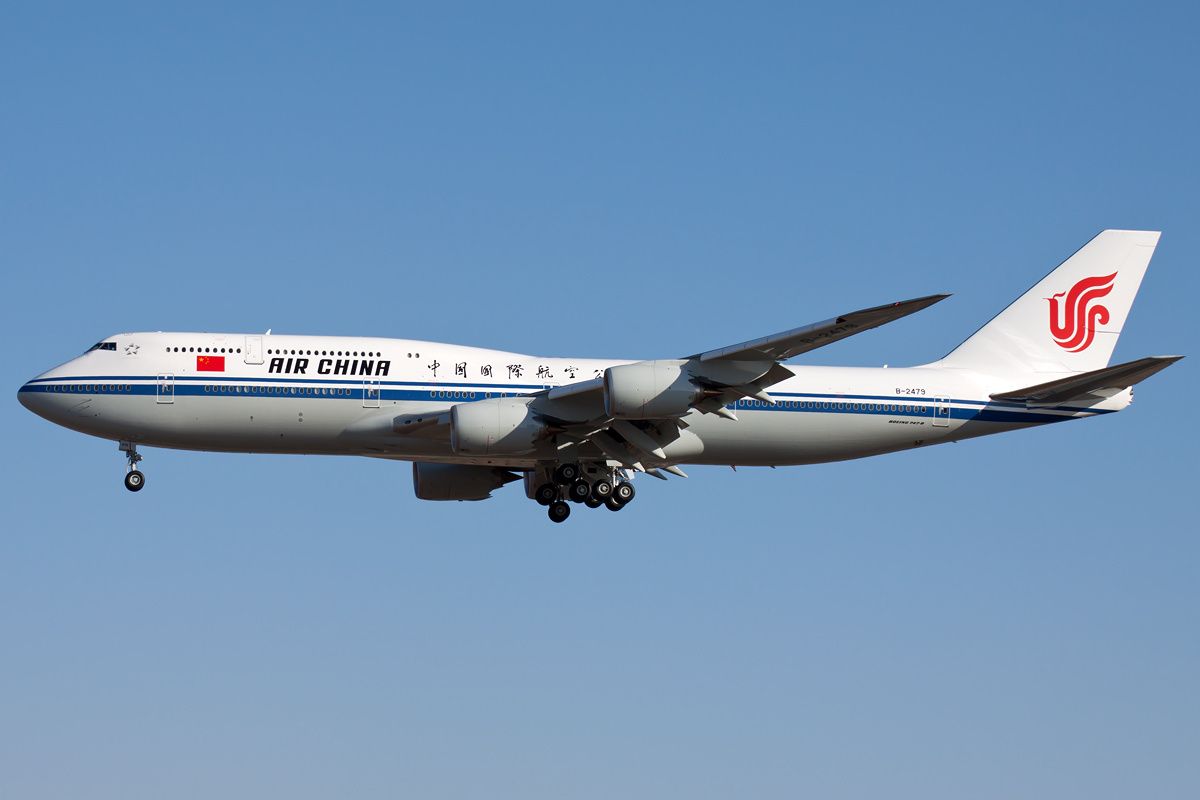 Air China Boeing 747-89L on finals into Beijing